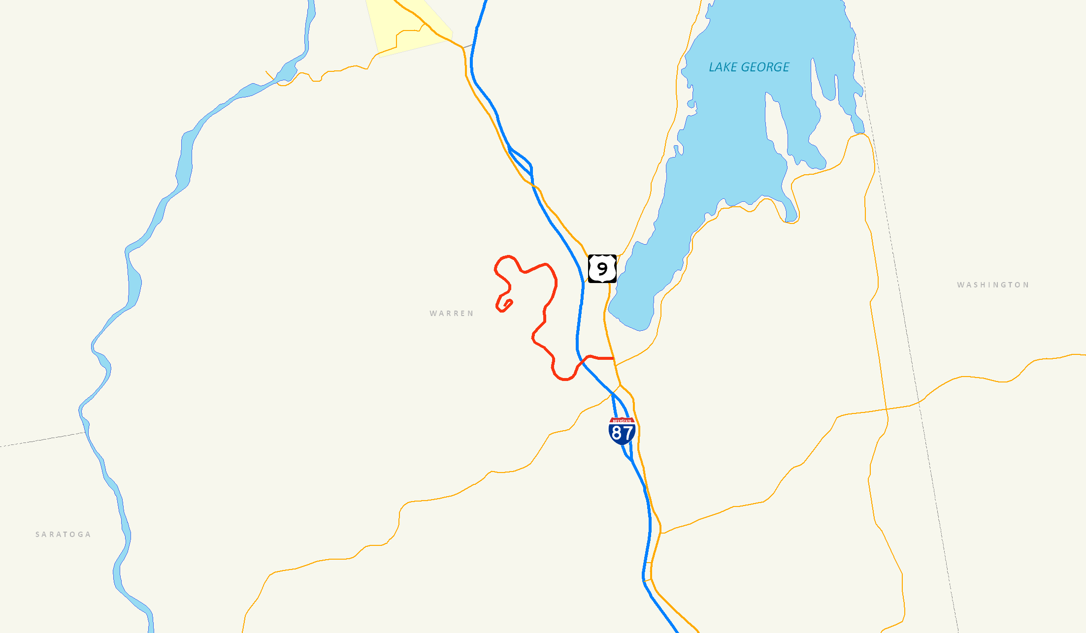 Map of Prospect Mountain Veterans Memorial Highway in New York State